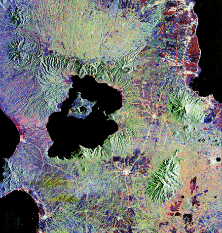 Lake Taal and Taal Volcano radar satellite image. From [1].